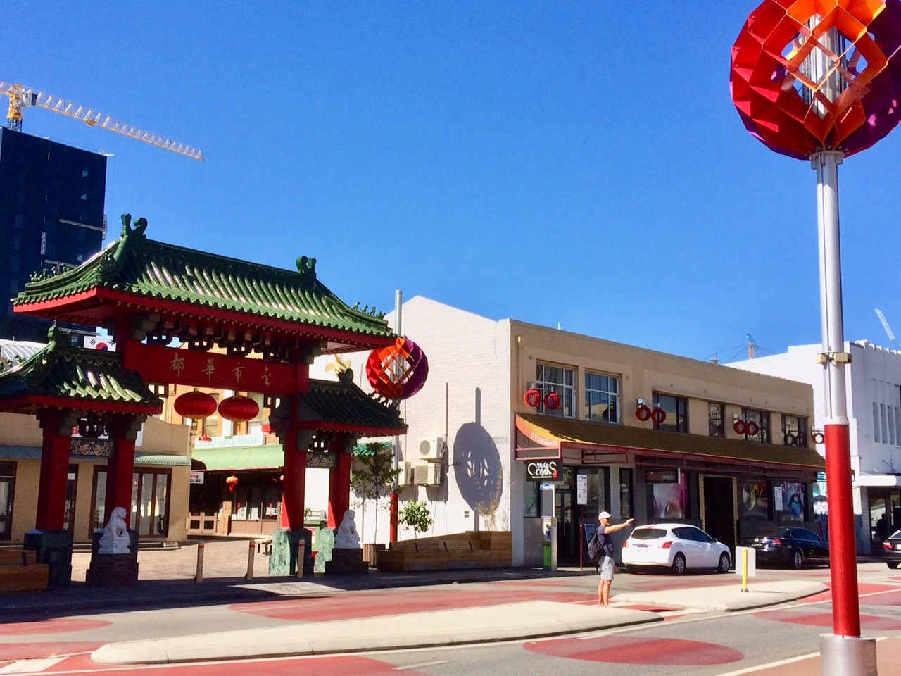 Chinatown Perth